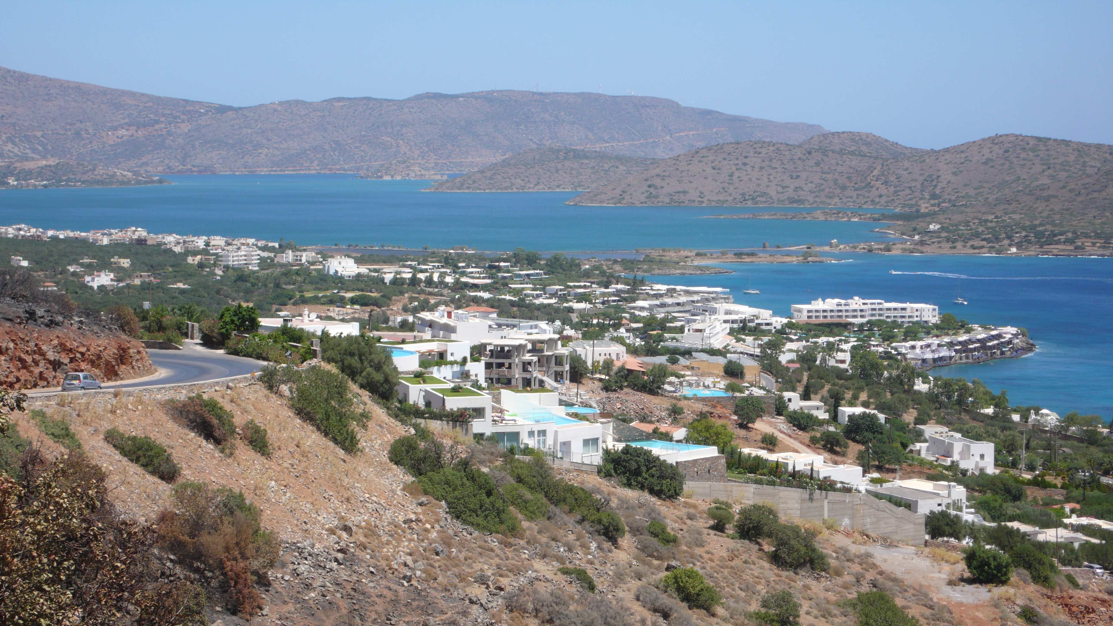 Elounda, Crete, Spinalonga island in the background